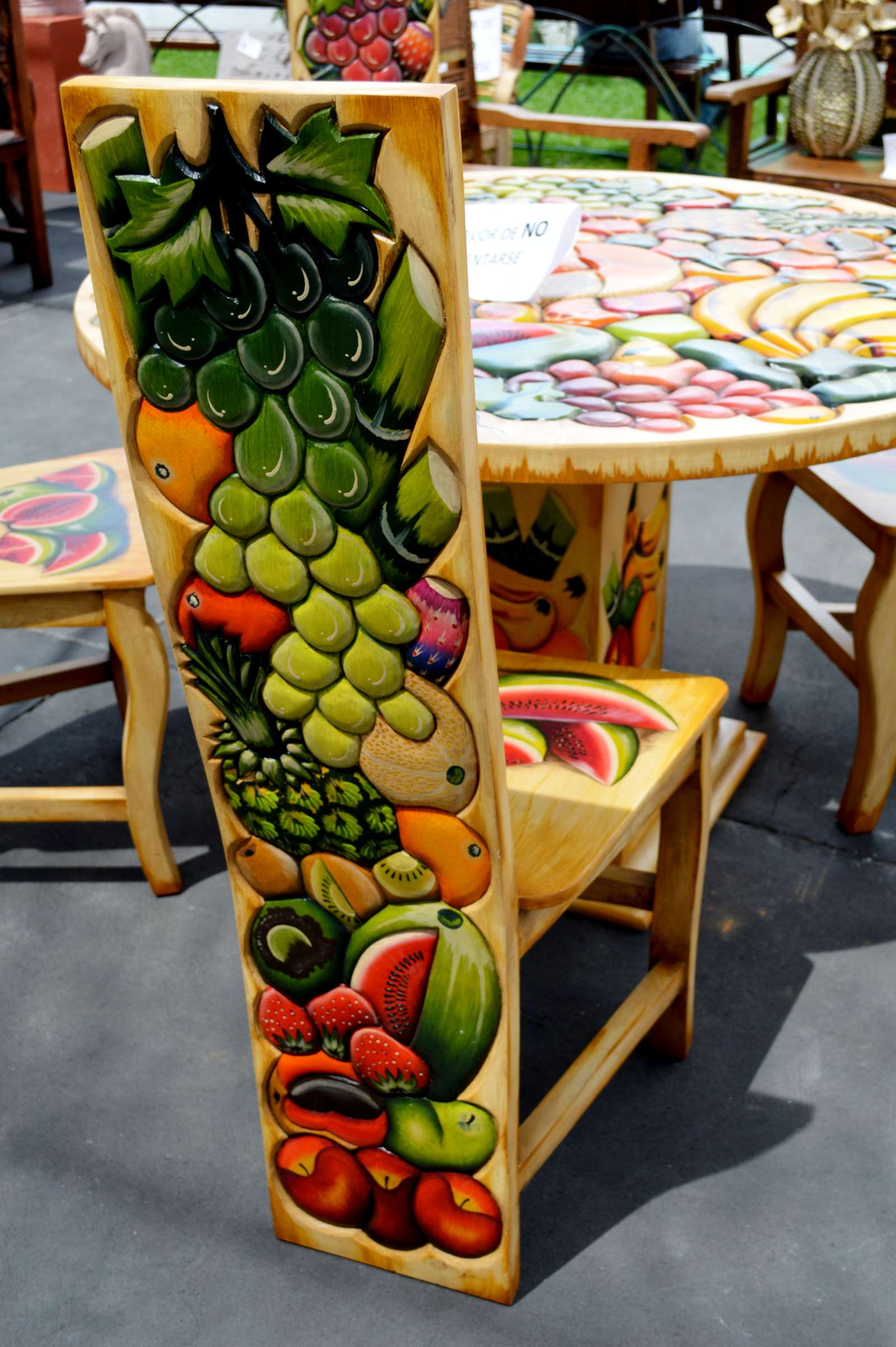 Dining set from Cuanajo, Michoacan at the 55th annual state handcrafts competition of the Tianguis de Domingo de Ramos in Uruapan, Michoacan, Mexico